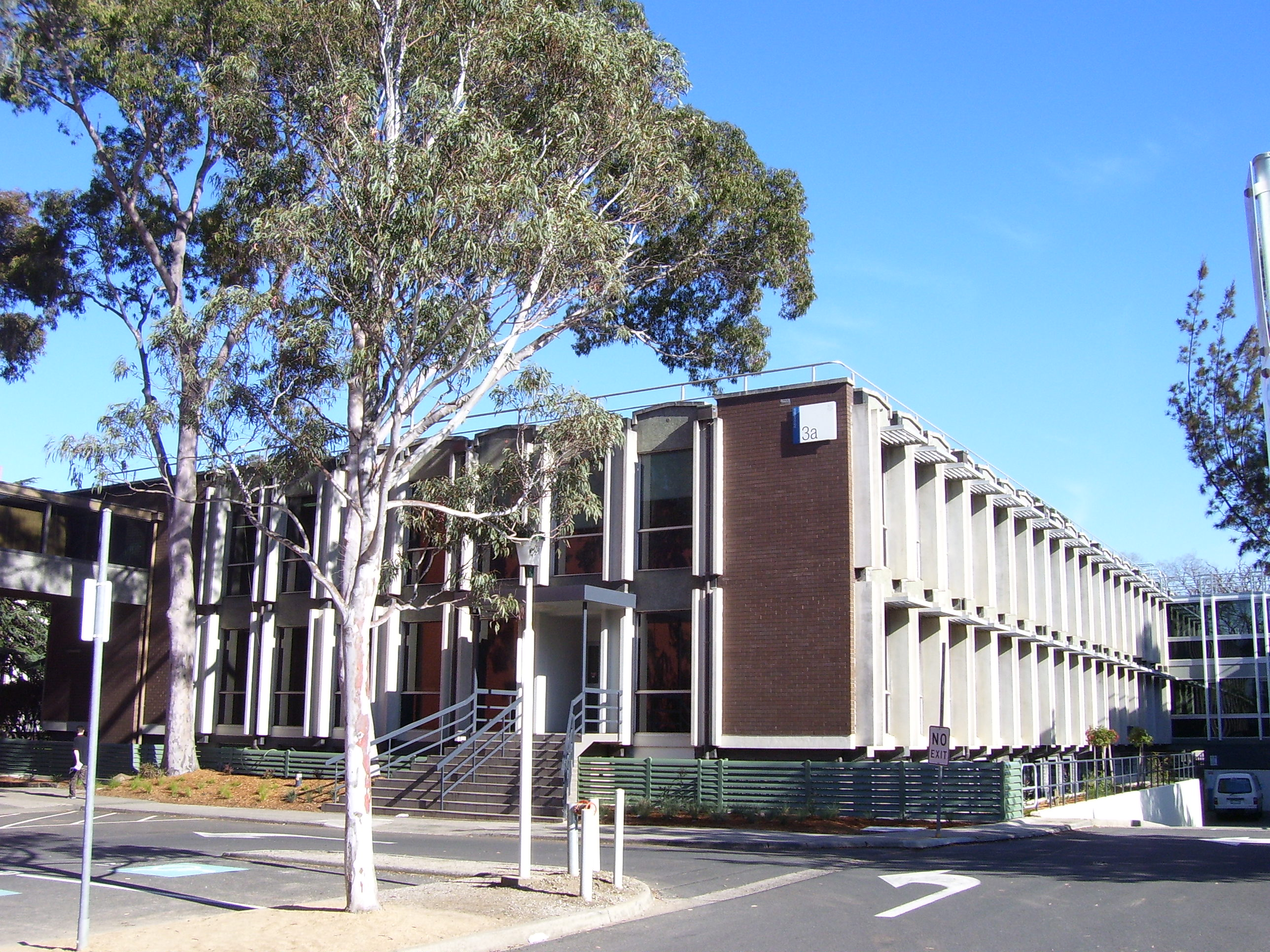 A photo of building 3a (the chancellory) on Monash University's Clayton campus